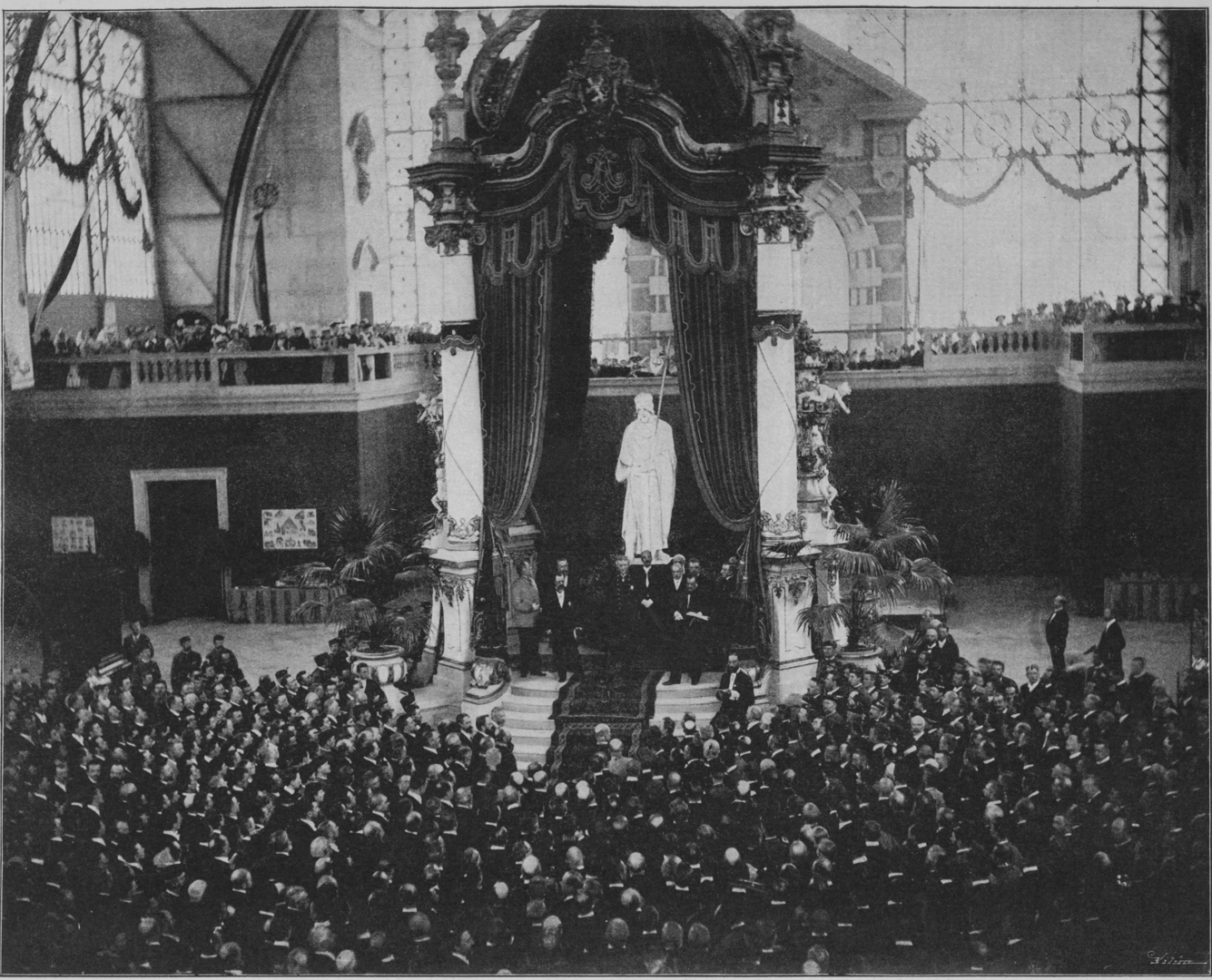 Opening of Czech & Slavonic Ethnographic Exhibition in Prague on May 15, 1895.